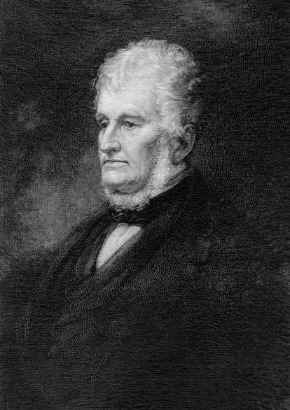 Portrait of Robert Hare, the chemist